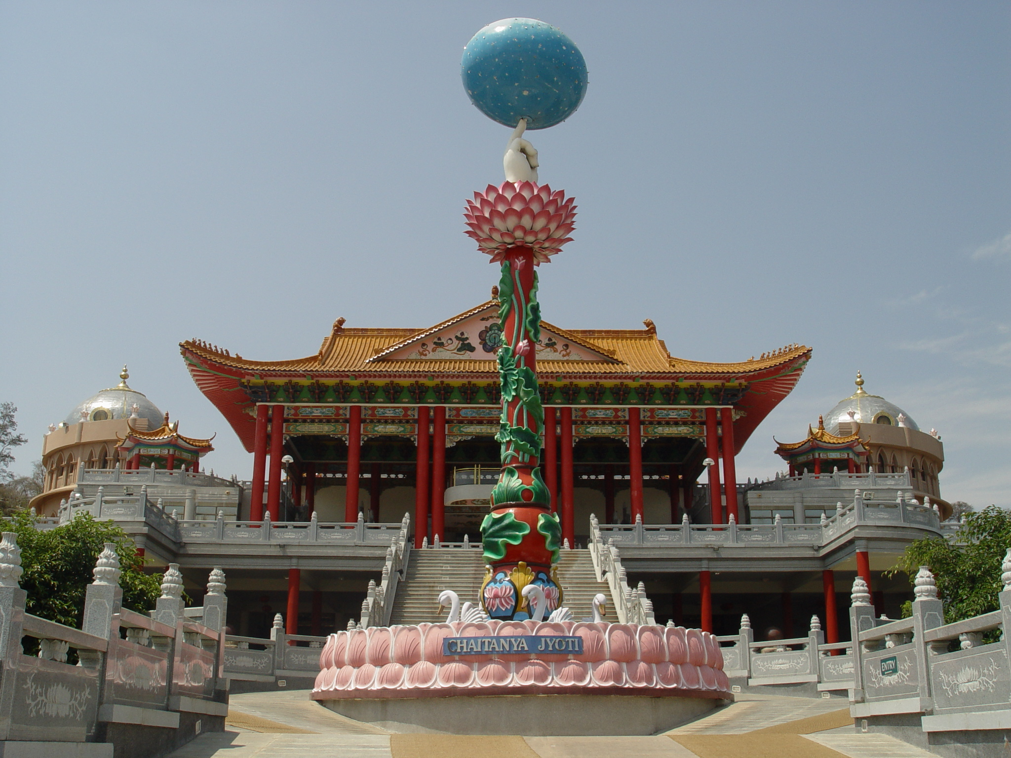 Chaitanya Jyothi Museum in Prashanthi Nilayam is a spiritual museum which records the life and works of Sathya Sai Baba. Museum devoted to the life and teachings of Sathya Sai Baba. Museum has won several international awards for design.